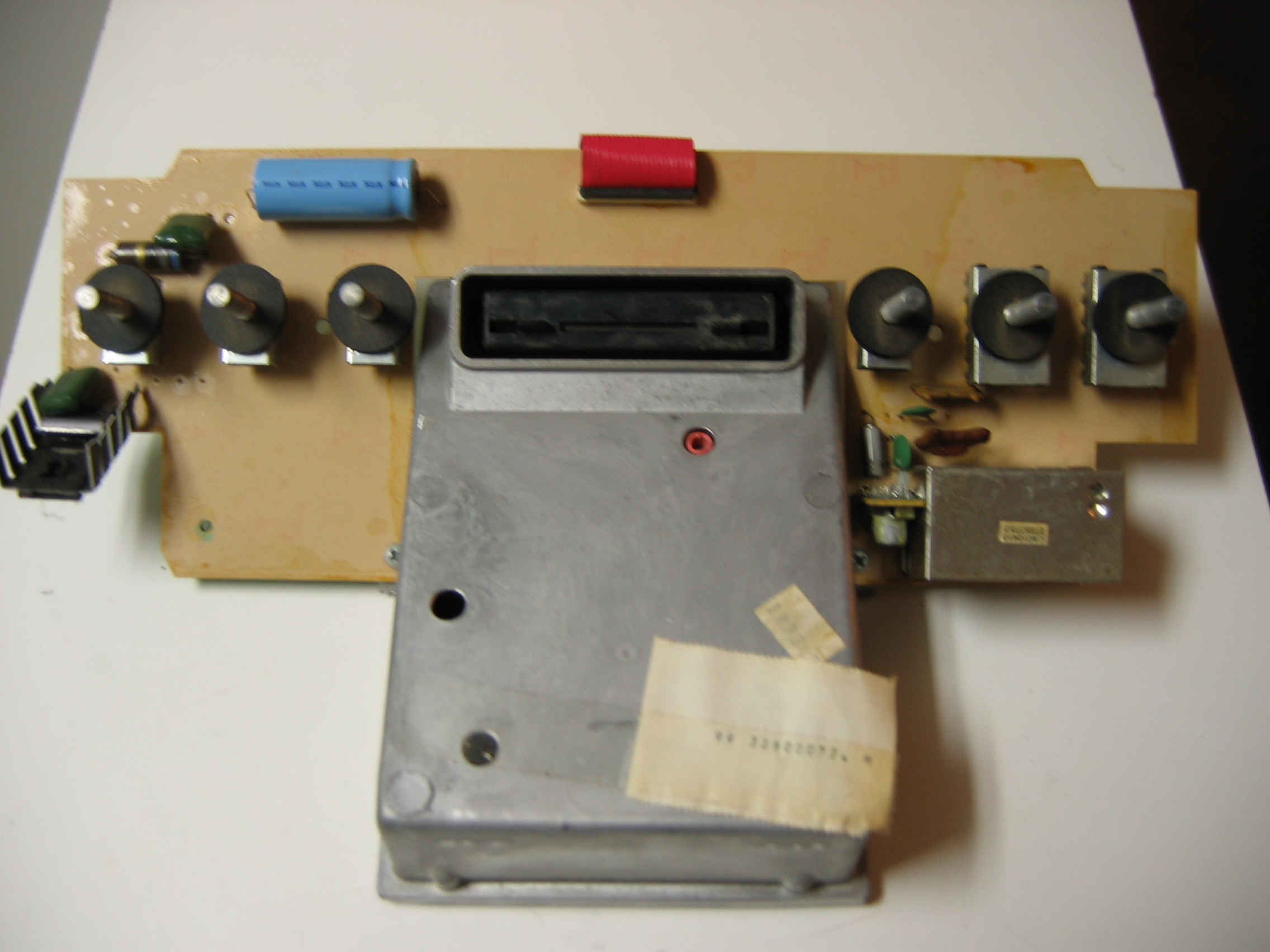 This is the motherboard and switchboard inside a Heavy Sixer.